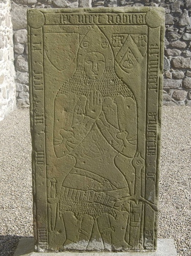 Graveslab in Kinkell churchyard south of Inverurie, Aberdeenshire, Great Britain. Dedicated to Gilbert de Greenlaw who was killed at the battle of Harlaw in 1411, "Bloody Harlaw" and shows a knight with a hand and a half sword and wearing an open-faced bascinet helmet with a mail-reinforced arming doublet beneath plate armour. Slight crop of original to balance it up.